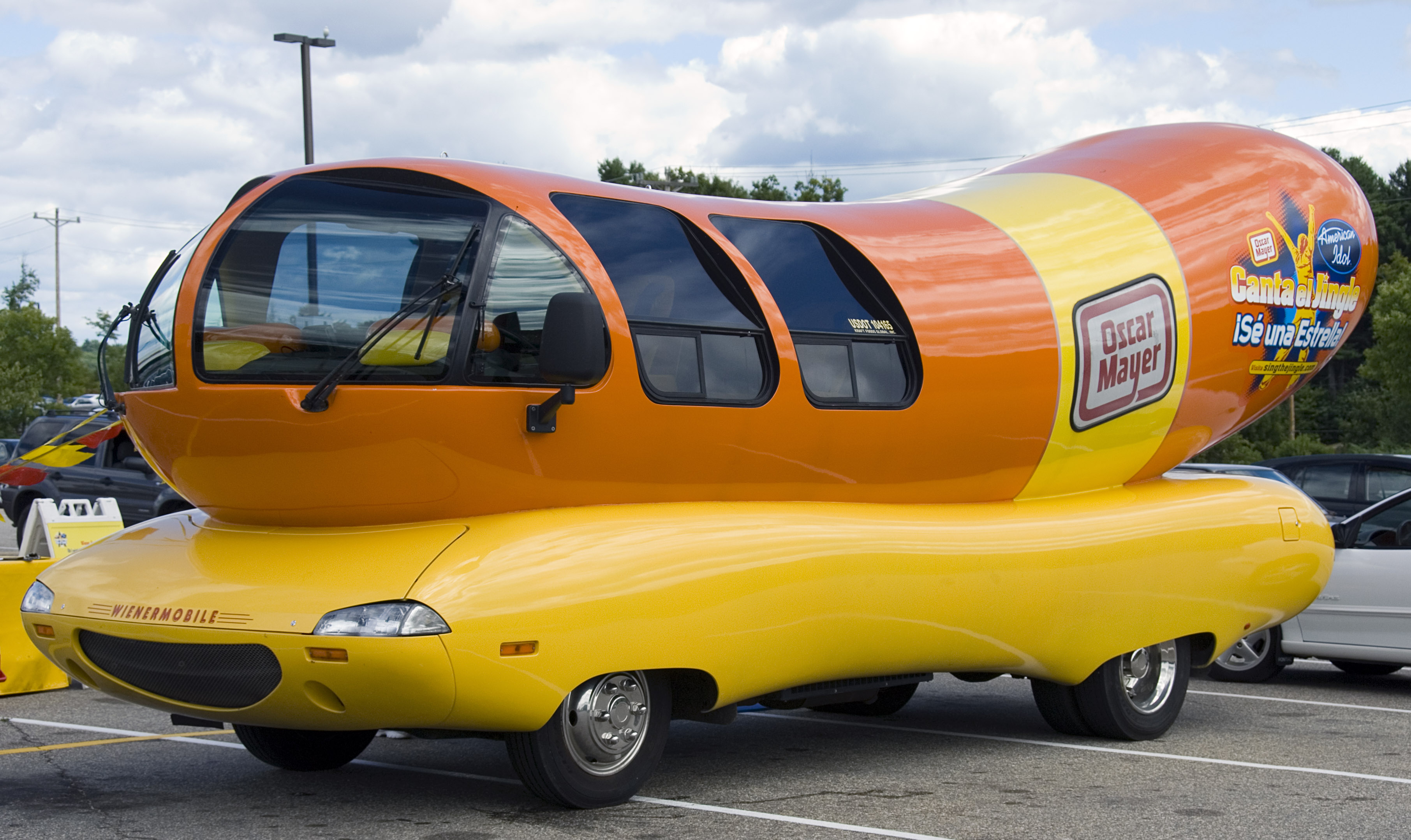 Oscar Mayer Wienermobile "Bologna" in Gilford, New Hampshire, August 19, 2007.